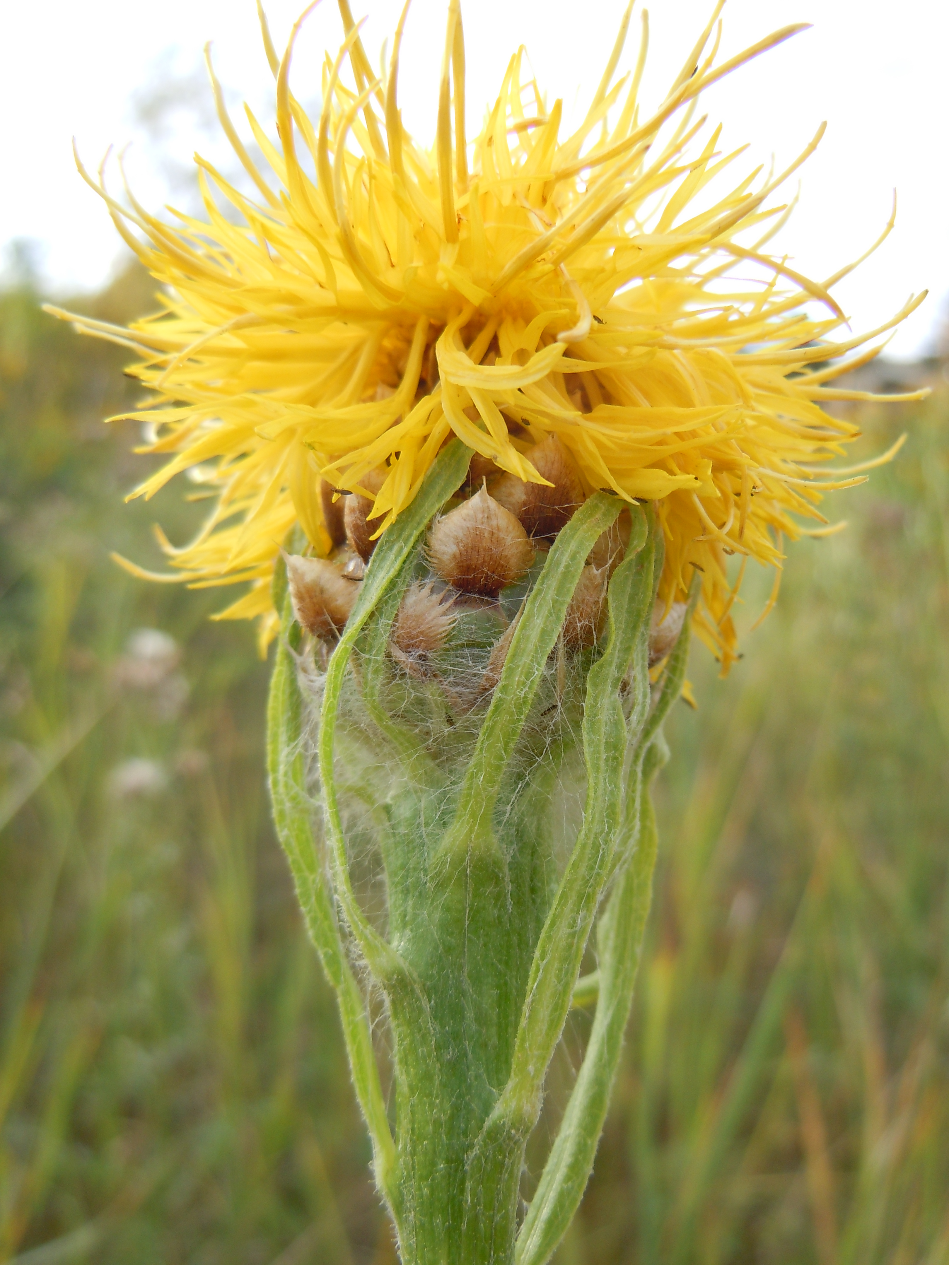 The yellow flowering heads are large, about 4 cm or more across.